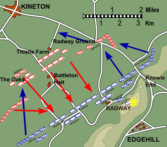 battle of edgehill 1642